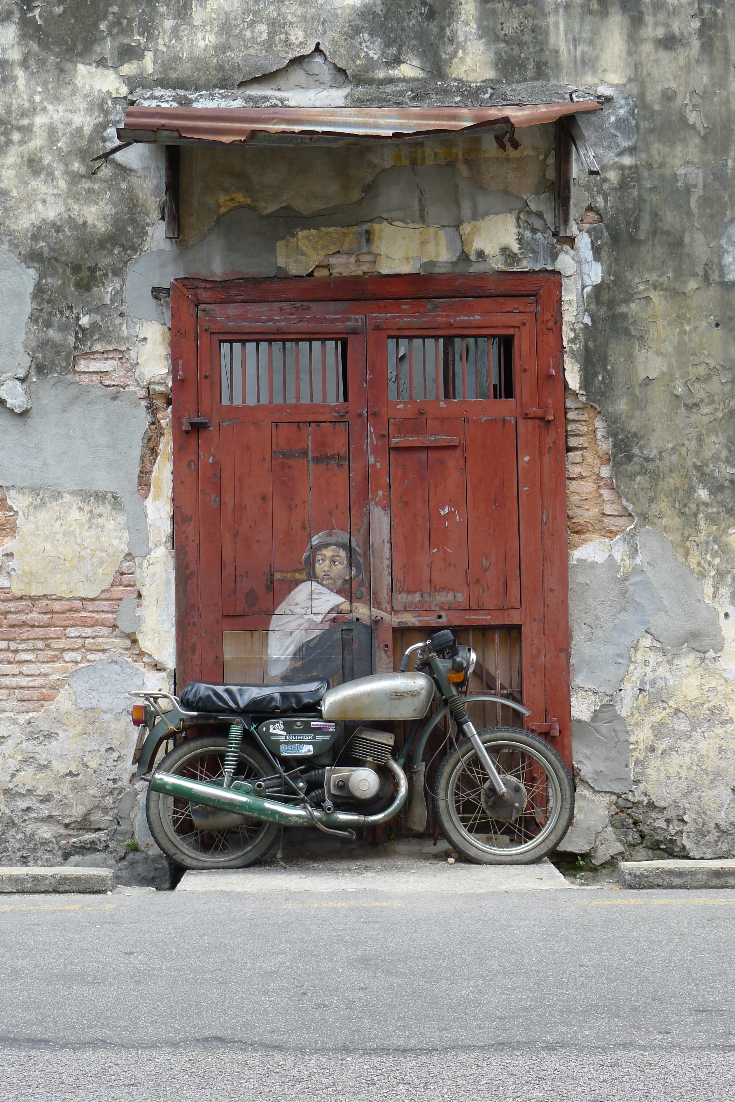 “Boy on a Bike” mural on Ah Quee Street, George Town, Penang by Lithuanian artist Ernest Zacharevic aspart of George Town Festival 2012.